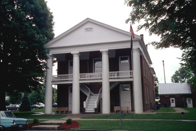 Ohio County Courthouse — in Rising Sun, Indiana. Designed in the Greek Revival style. In the Rising Sun Historic District, and on the National Register of Historic Places in Ohio County.